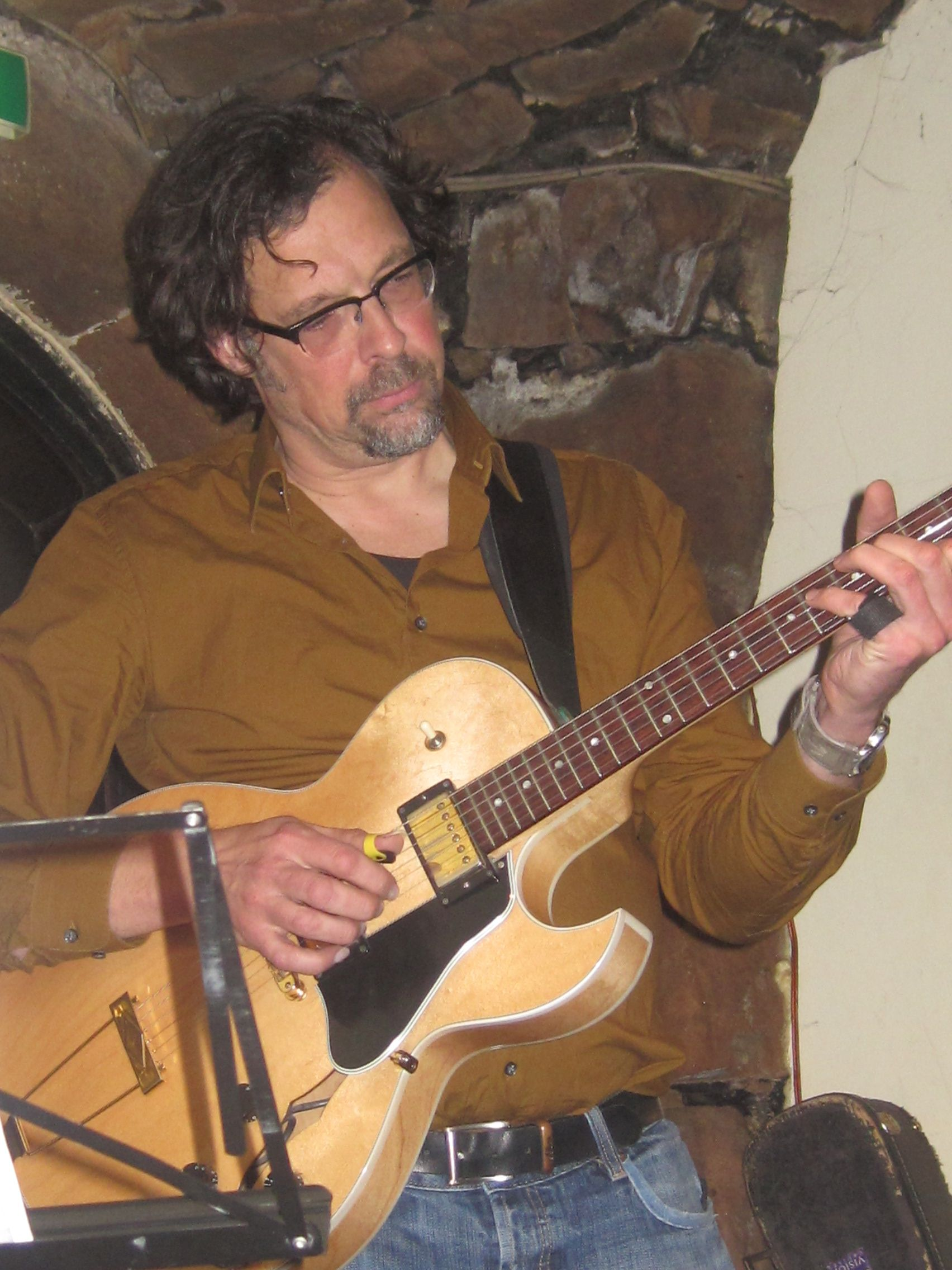 German jazz guitarrist Frank Wingold, Marburg 2014